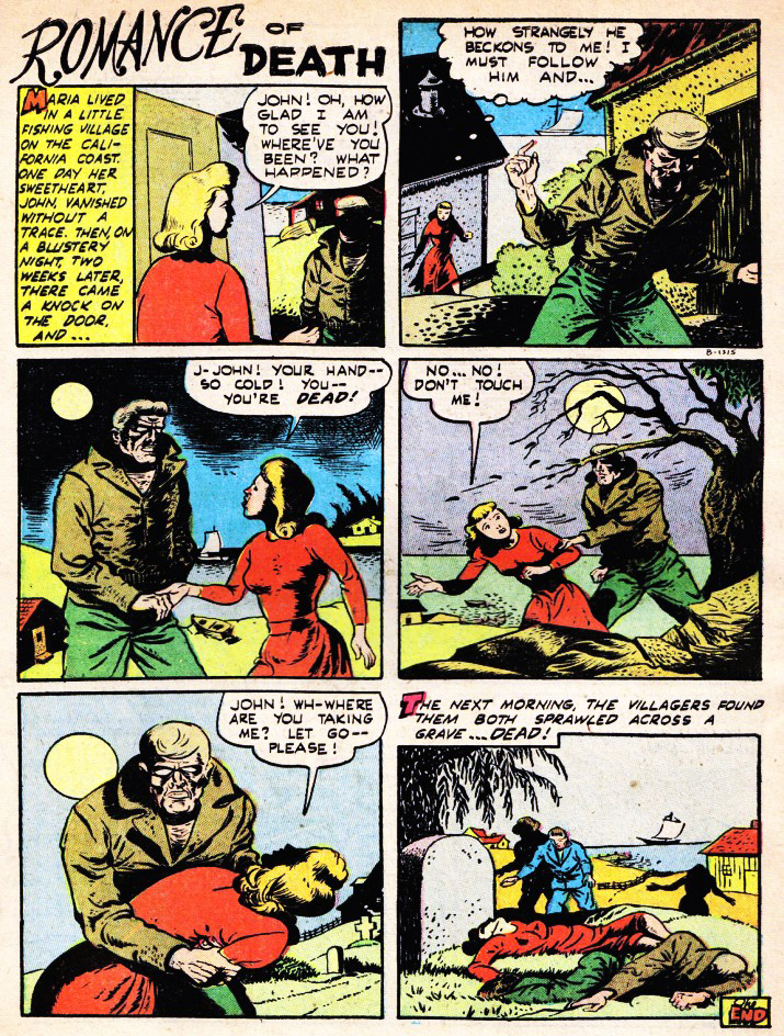 Adventures Into Darkness #10 Page 34